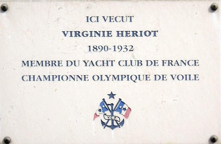 Plaque at the Paris residence of Virginie Hériot